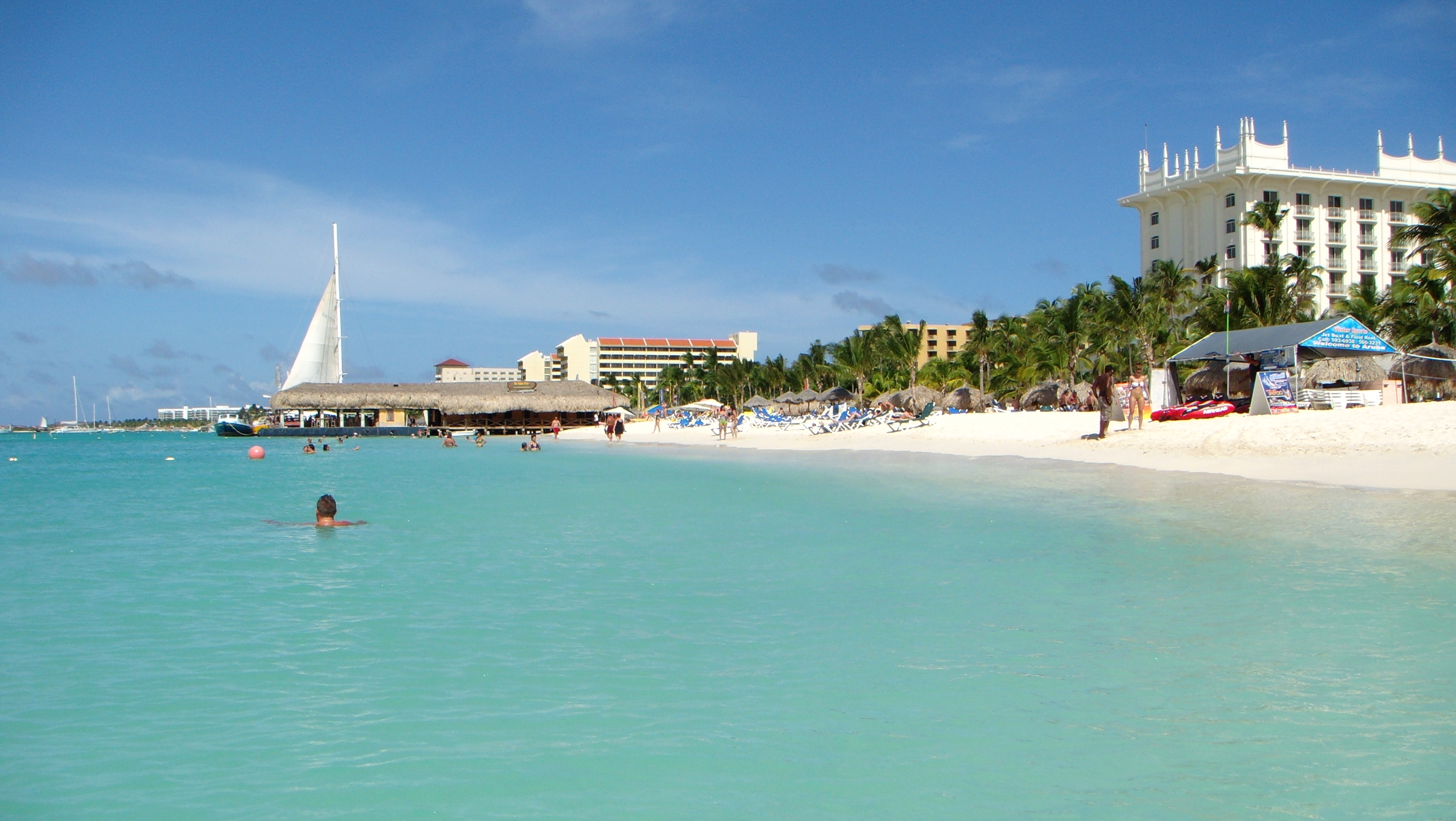 Aruba. Palm Beach